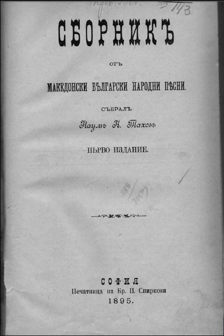 Naum Tahov 1895